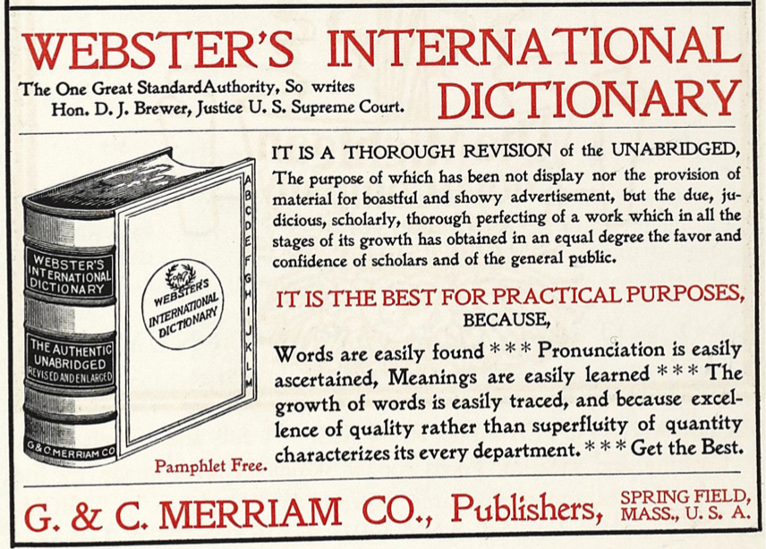 advertisement for G & C Merriam Co., from "Bradley His Book" (Springfield, Massachusetts, USA)